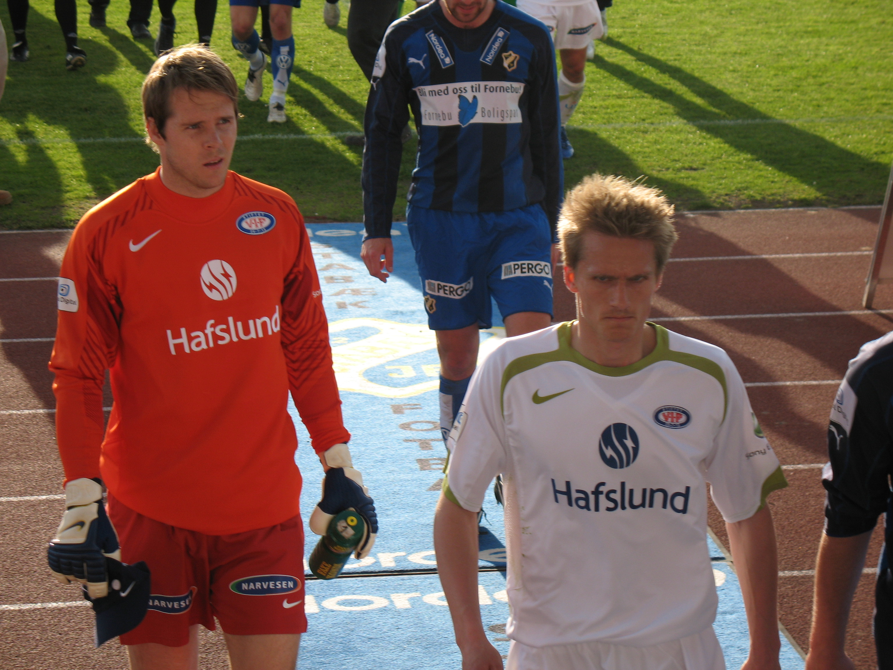 The Vålerenga players Árni Gautur Arason (left) and Allan Jepsen (right) walking towards the dressing room. Half-time, Stabæk–Vålerenga (Norwegian Premier League) June 6th 2006. Vålerenga had been massacred in the first half, which can be seen in the faces of the players.